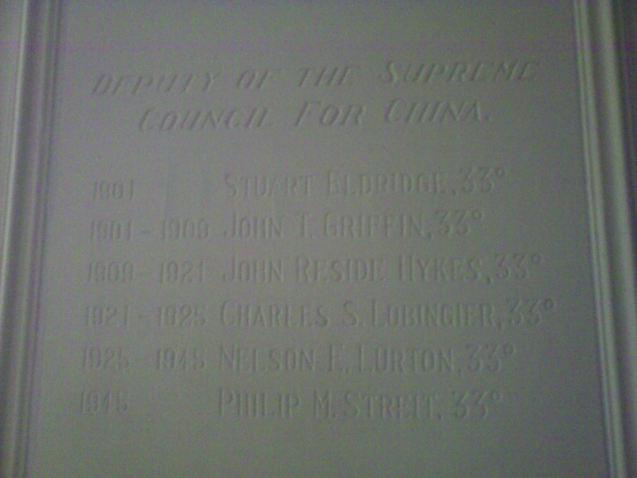 Ürümqi Road No. 178 mural inscription on second floor